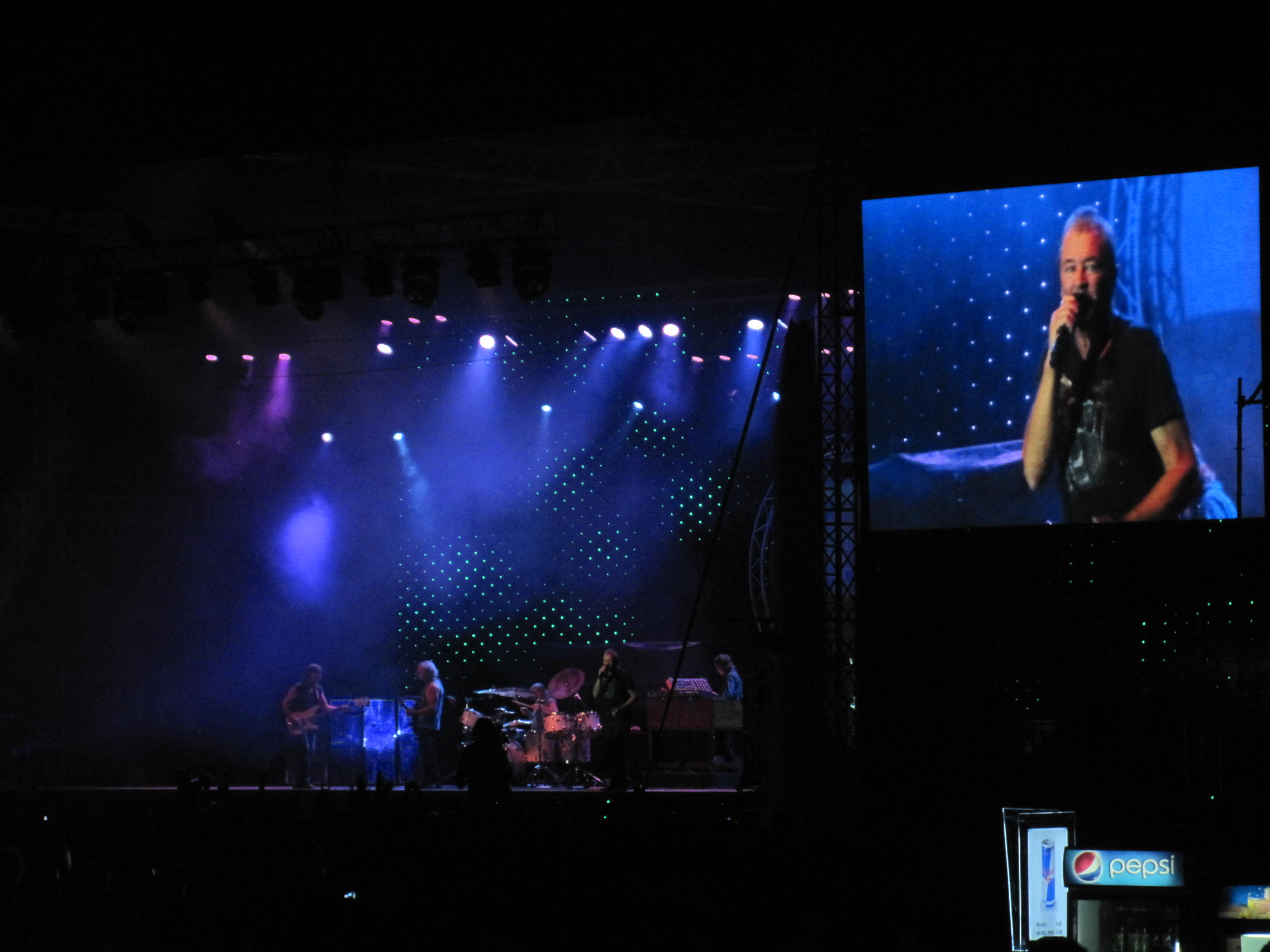 Tbilisi Open Air 2013 at Dinamo Arena, Tbilisi.